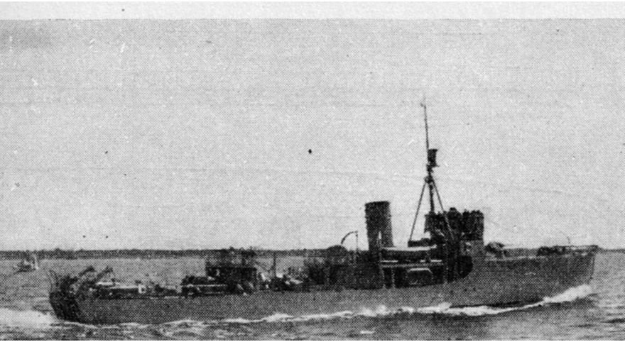 Swedish minesweeper "Arholma" commissend 1939